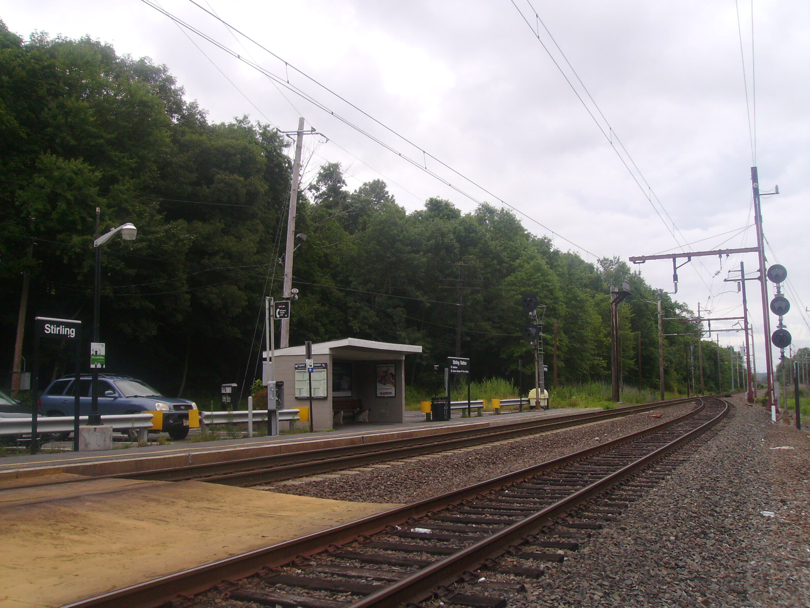 Stirling Station on the Gladstone Branch in Stirling, New Jersey, a part of Long Hill Township. The Delaware, Lackawanna and Western Railroad station shelter is visible on the lone platform.